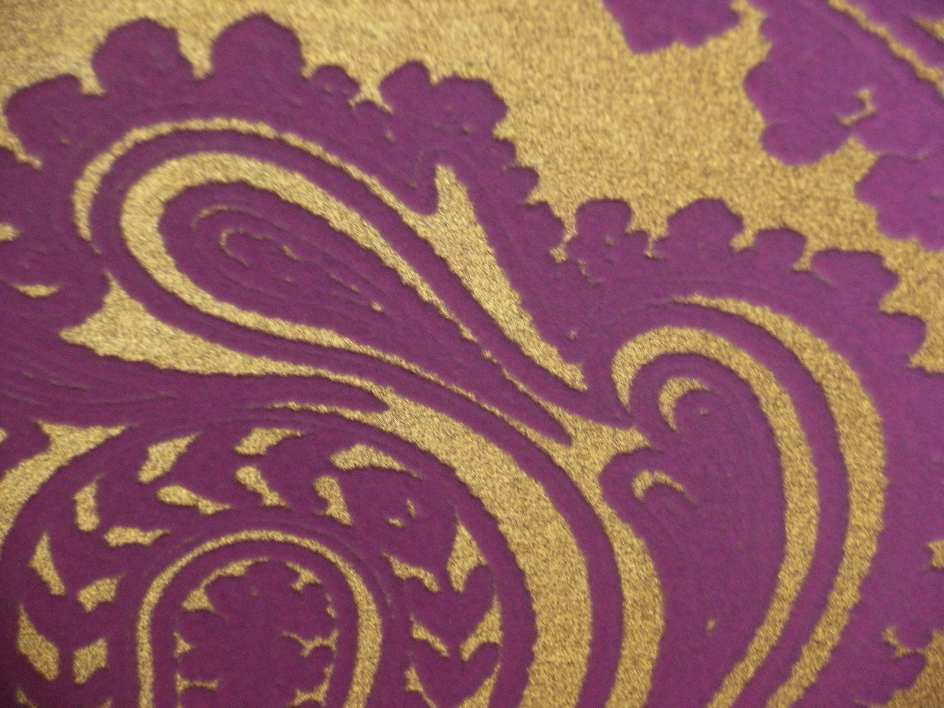 Detail from pink and gold paisley flock wallpaper in a squat in Islington.